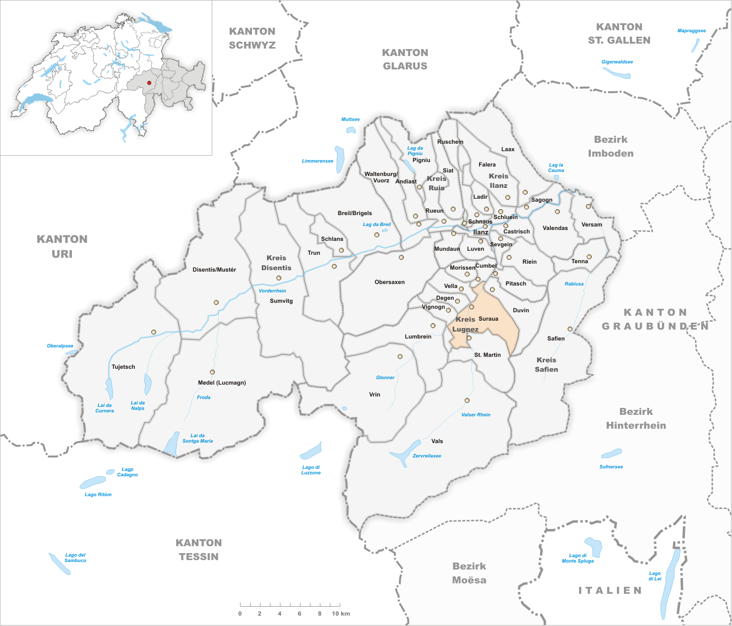 Municipality Suraua